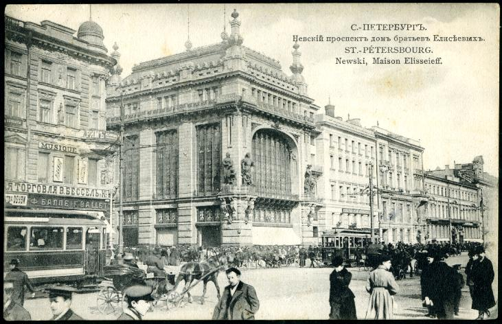 Saint Petersburg (Russia), Nevsky Prospekt. A post card with Elisseeff store from my collection - the post card with photograph by anonymous author was manufactured after 1907, or 104 years ago, and is in public domain under Russian law (50 years).